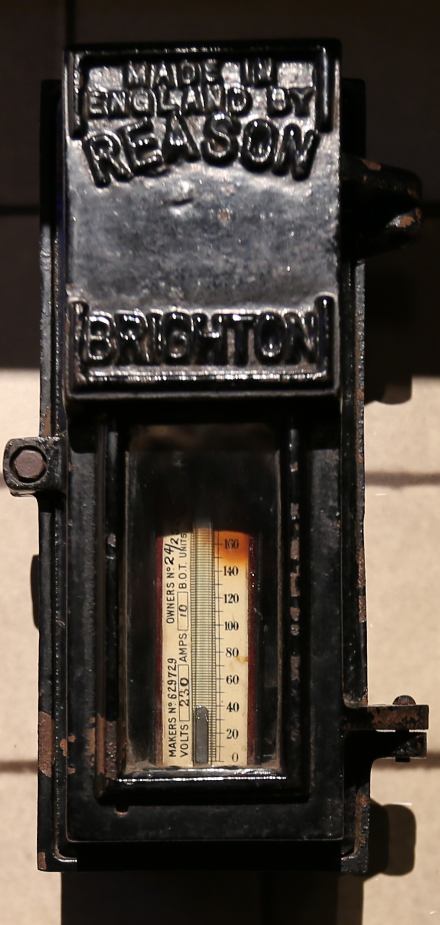 Photo of a reason electricity meter